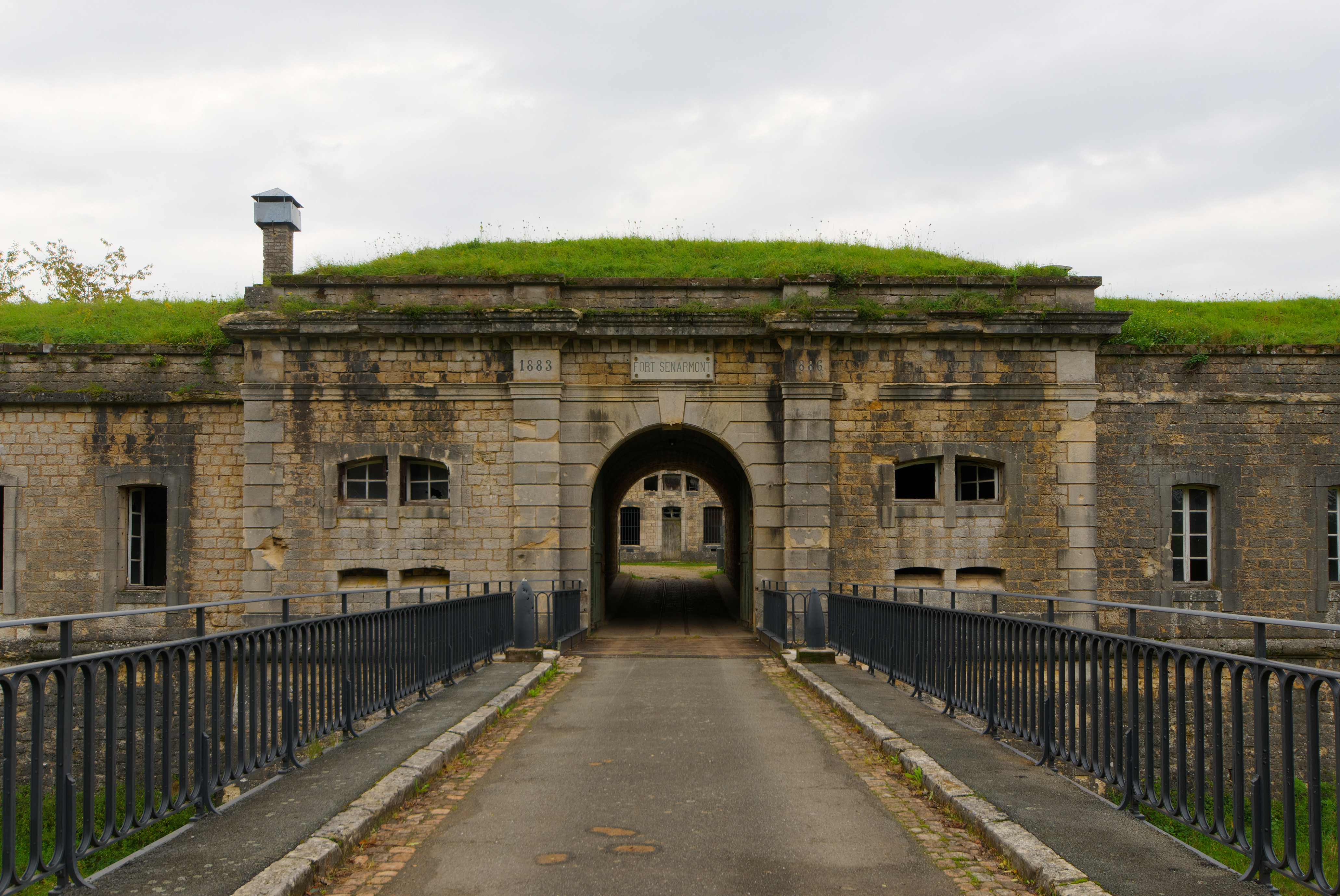 This photograph was taken with a Nikon D300 Fort de Bessoncourt : entrée principale (HDR) (inscrit MH n°PA00135350).